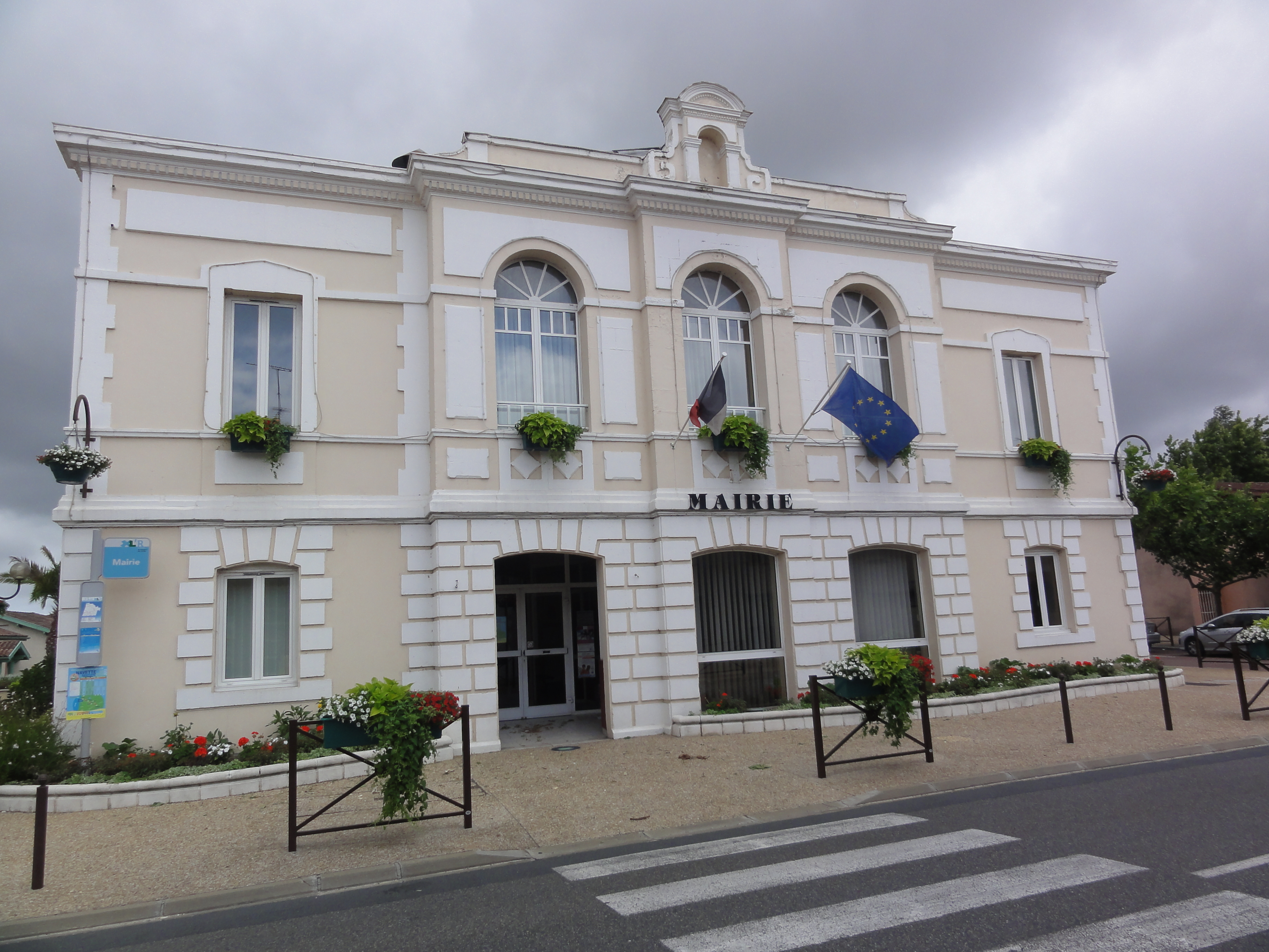 Tosse (Landes) mairie